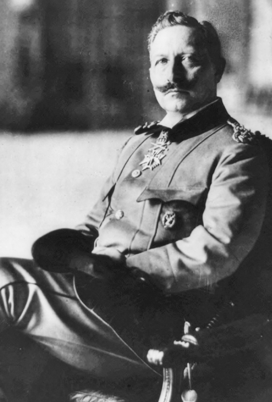 Cropped portrait image of Kaiser Wilhelm II